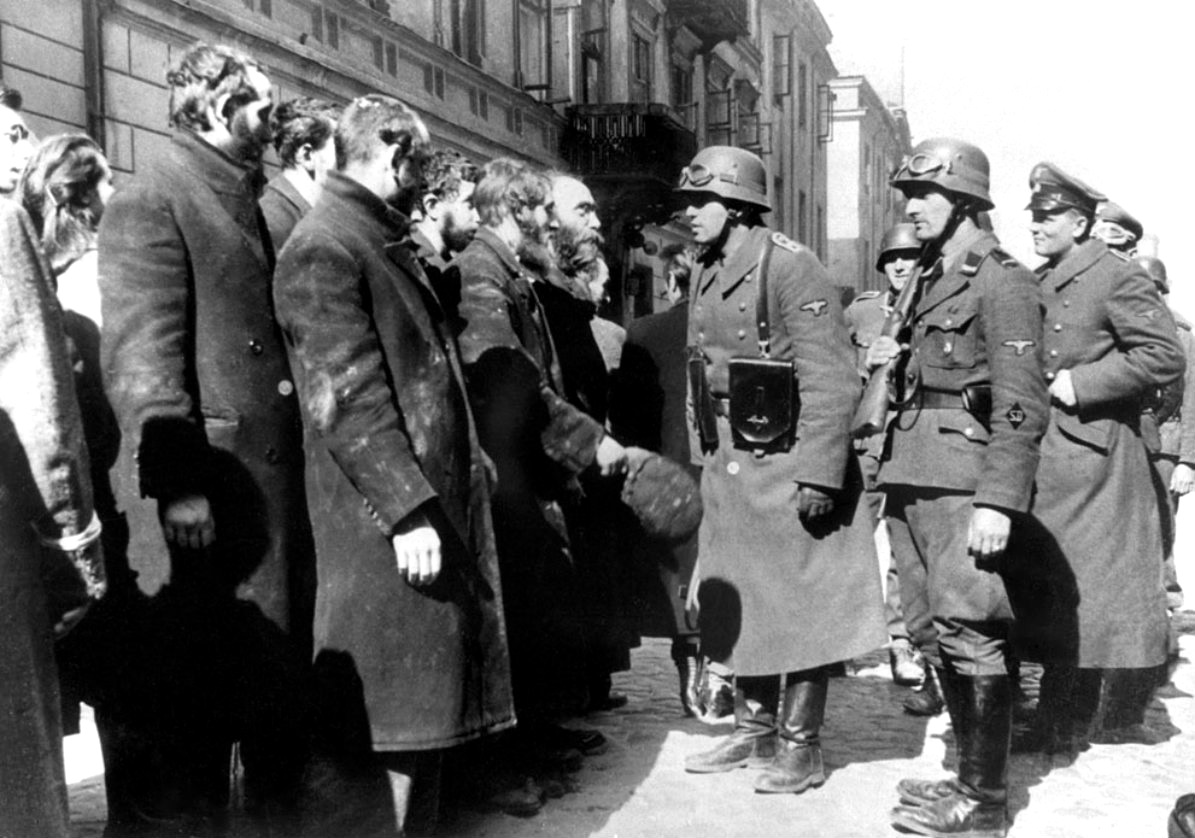 Warsaw Ghetto Uprising - Interrogation by SS Sergeant (Oberscharführer).